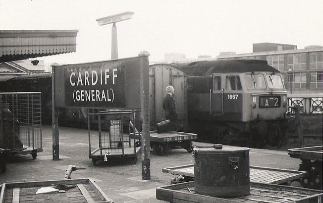 Watching the trains go by. A business passenger looks on as a goods train passes through Cardiff (General) station.